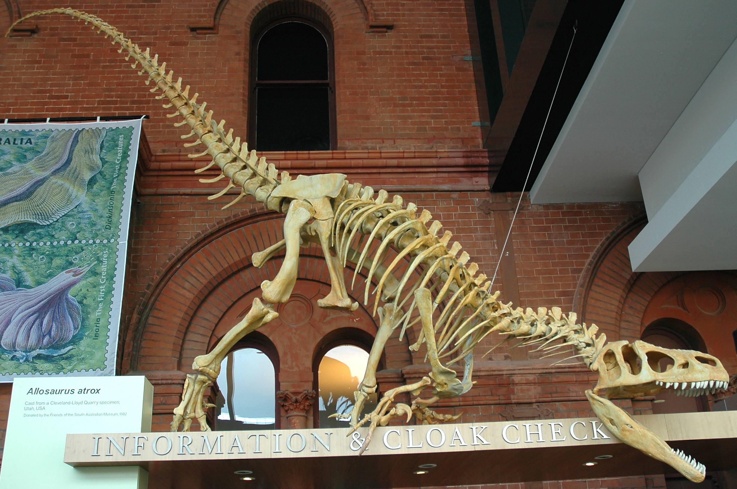 Allosaurus atrox (Marsh, 1878) theropod dinosaur (cast) from the Jurassic of Utah, USA (public display, South Australian Museum, Adelaide, South Australia). The most famous Jurassic-aged theropod is Allosaurus. It’s smaller than its Late Cretaceous relative Tyrannosaurus, but was still a top predator. The species Allosaurus atrox (Marsh, 1878) is well known from numerous individuals found in the Morrison Formation (Upper Jurassic) at the famous Cleveland-Lloyd Quarry in Utah, USA. Allosaurus atrox is only known from the Late Jurassic of western America. Stratigraphy: Morrison Formation, Tithonian Stage, upper Upper Jurassic Locality: Cleveland-Lloyd Quarry, northern Emery County, east-central Utah, USA Theropod were small to large, bipedal dinosaurs. Almost all known members of the group were carnivorous (predators and/or scavengers). They represent the ancestral group to the birds, and some theropods are known to have had feathers. Some of the most well known dinosaurs to the general public are theropods, such as Tyrannosaurus, Allosaurus, and Spinosaurus.